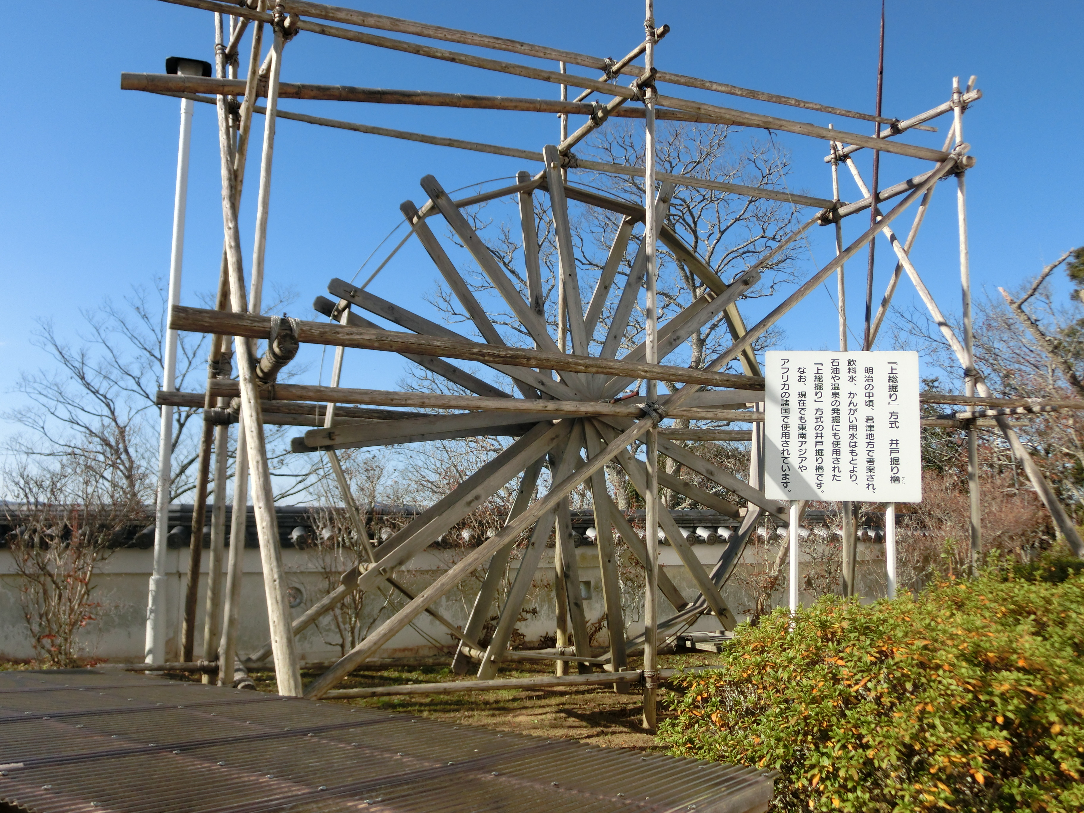 Tools of the Kazusabori Well-boring